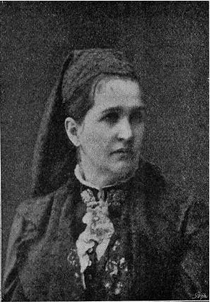 Elisabeth Bohm